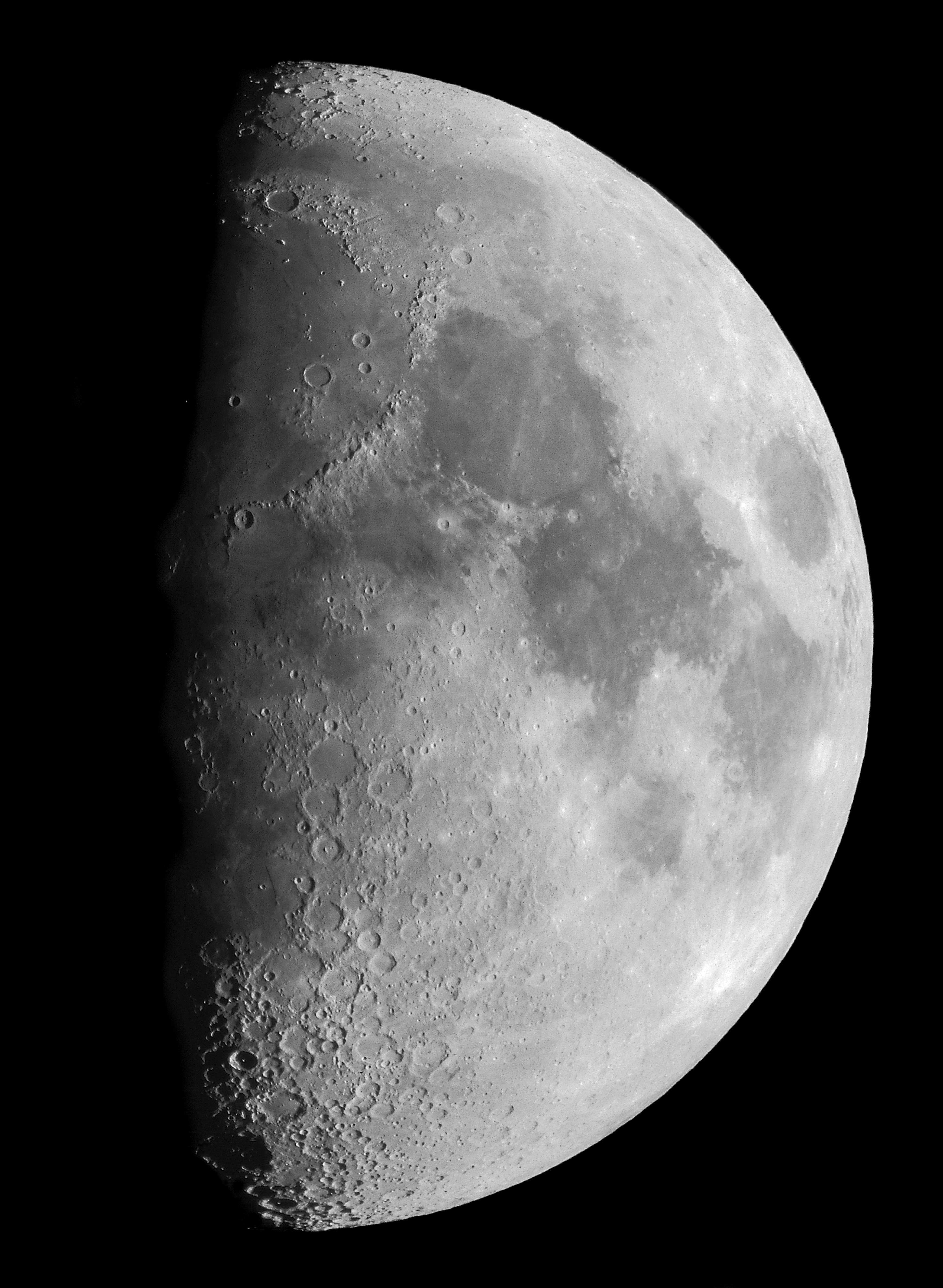 Moon high resolution, view from Hamois, Belgium